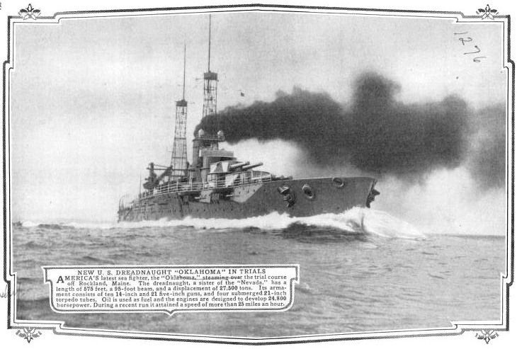 Photograph of the USS Oklahoma (BB-37) under way during her sea trials circa 1916